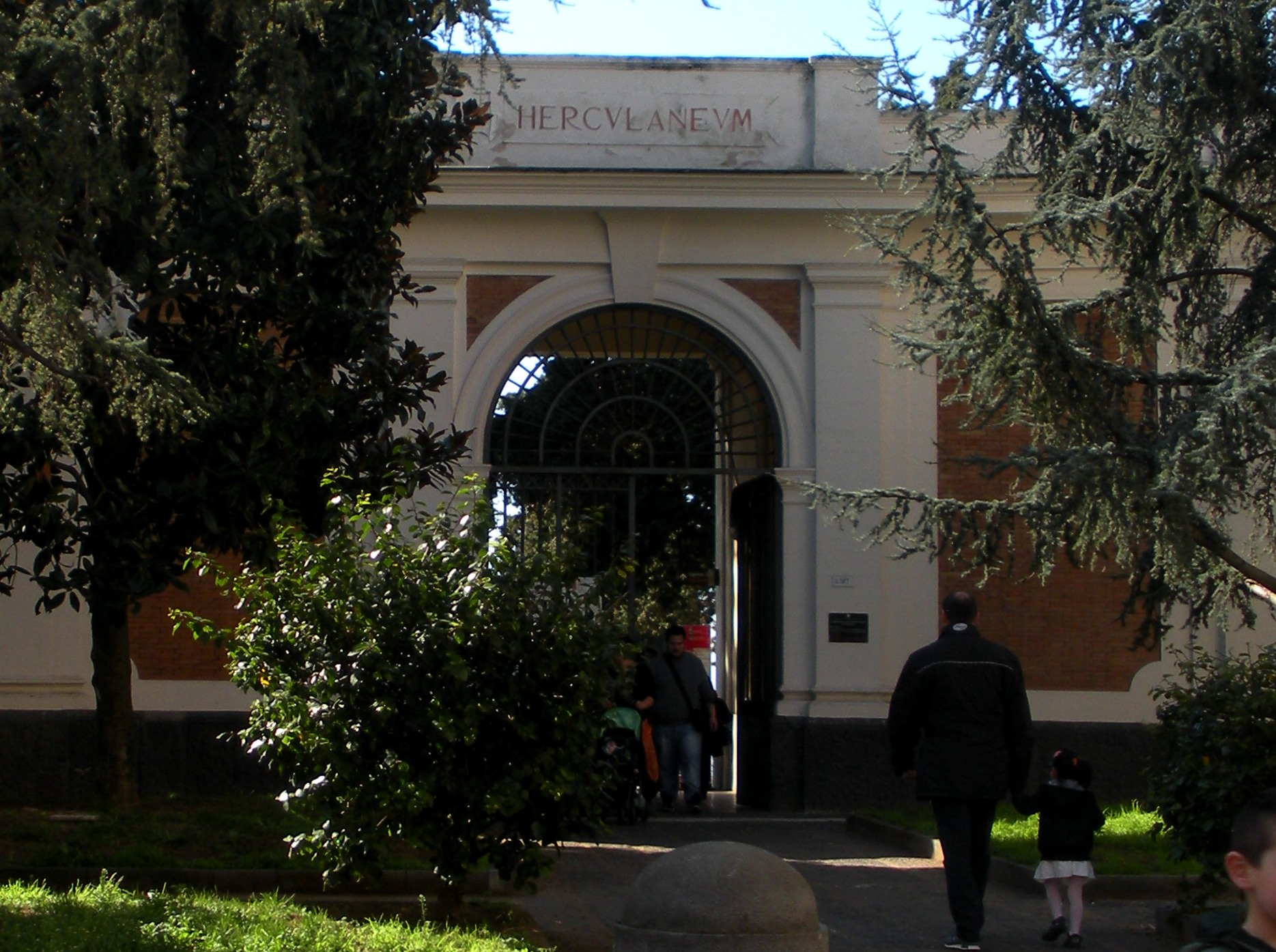 The entrance to the Archaelogical site of Herculaneum from the town centre of Ercolano